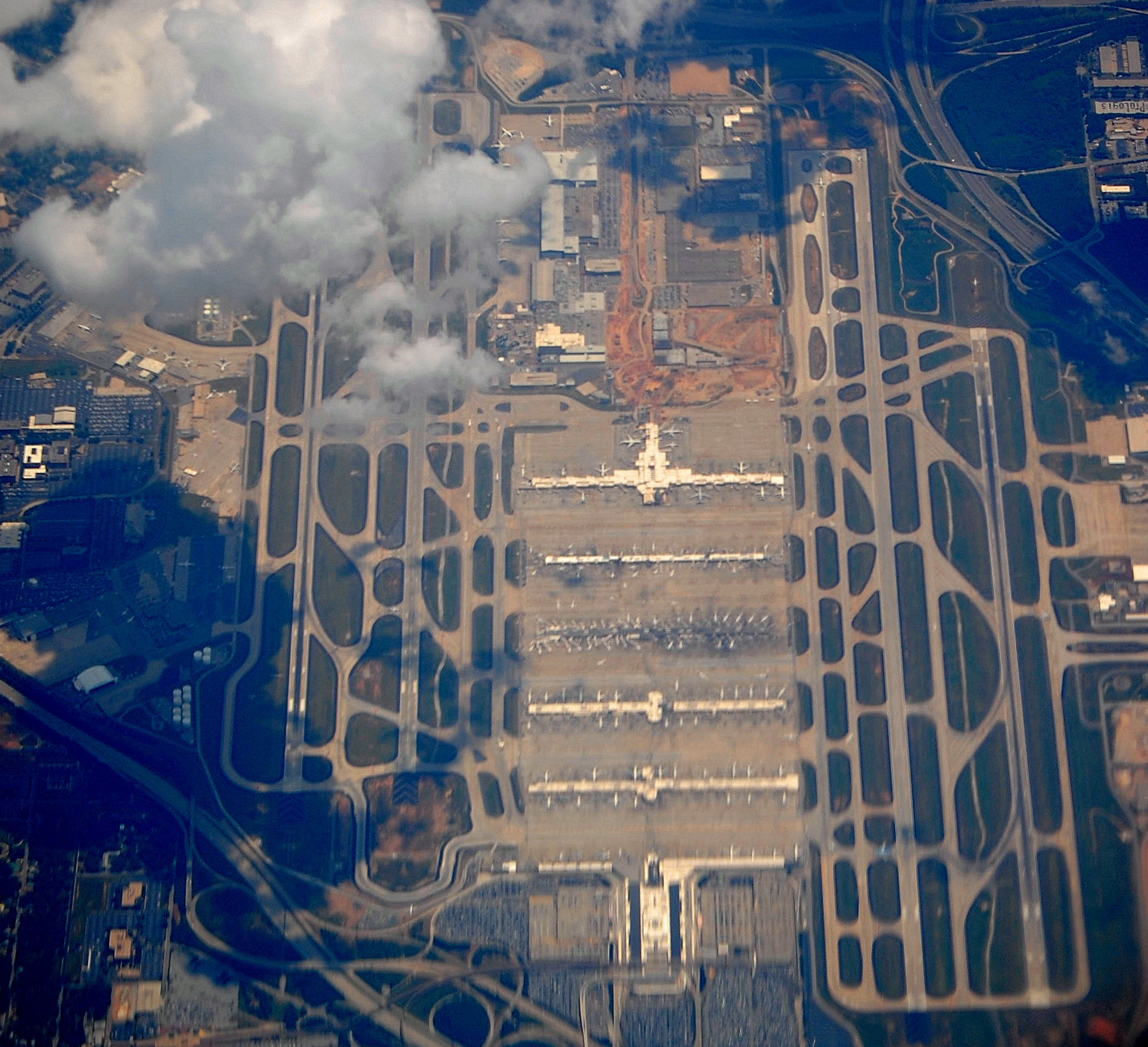 Hartsfield-Jackson Atlanta International Airport aerial from 35,000 feet taken on a flight from Nashville, Tennessee to Jacksonville, Florida